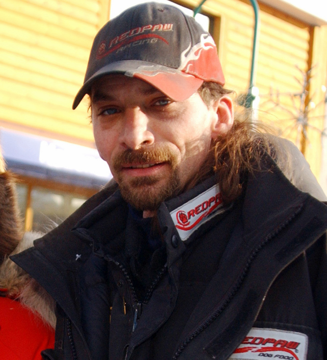 Army Staff Sgt. Harry Alexie of the Alaska Army National Guard stands with friend and mentor Lance Mackey, two-time consecutive Iditarod winner, at the 37th annual Iditarod Trail Sled Dog Race start in downtown Anchorage, March 7, 2009. U.S. Army photo by Spc. Paizley Ramsey